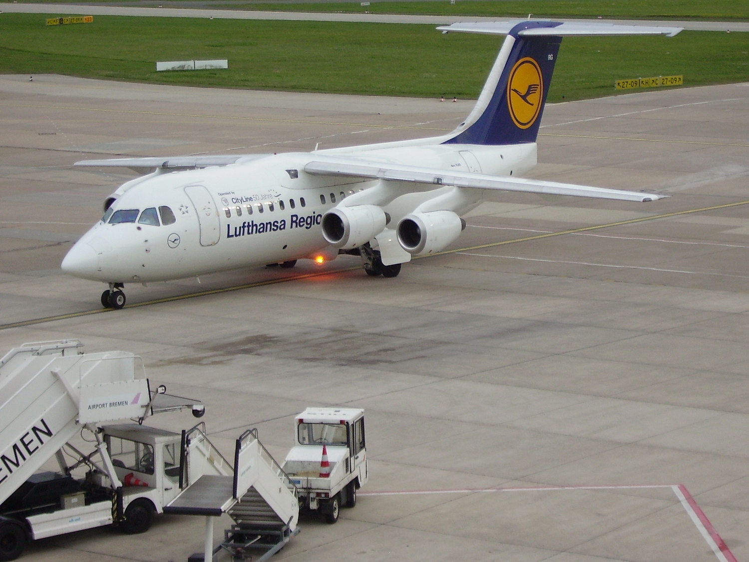 An Avro RJ-85 of Lufthansa with registration D-AVRG at the airport of Bremen